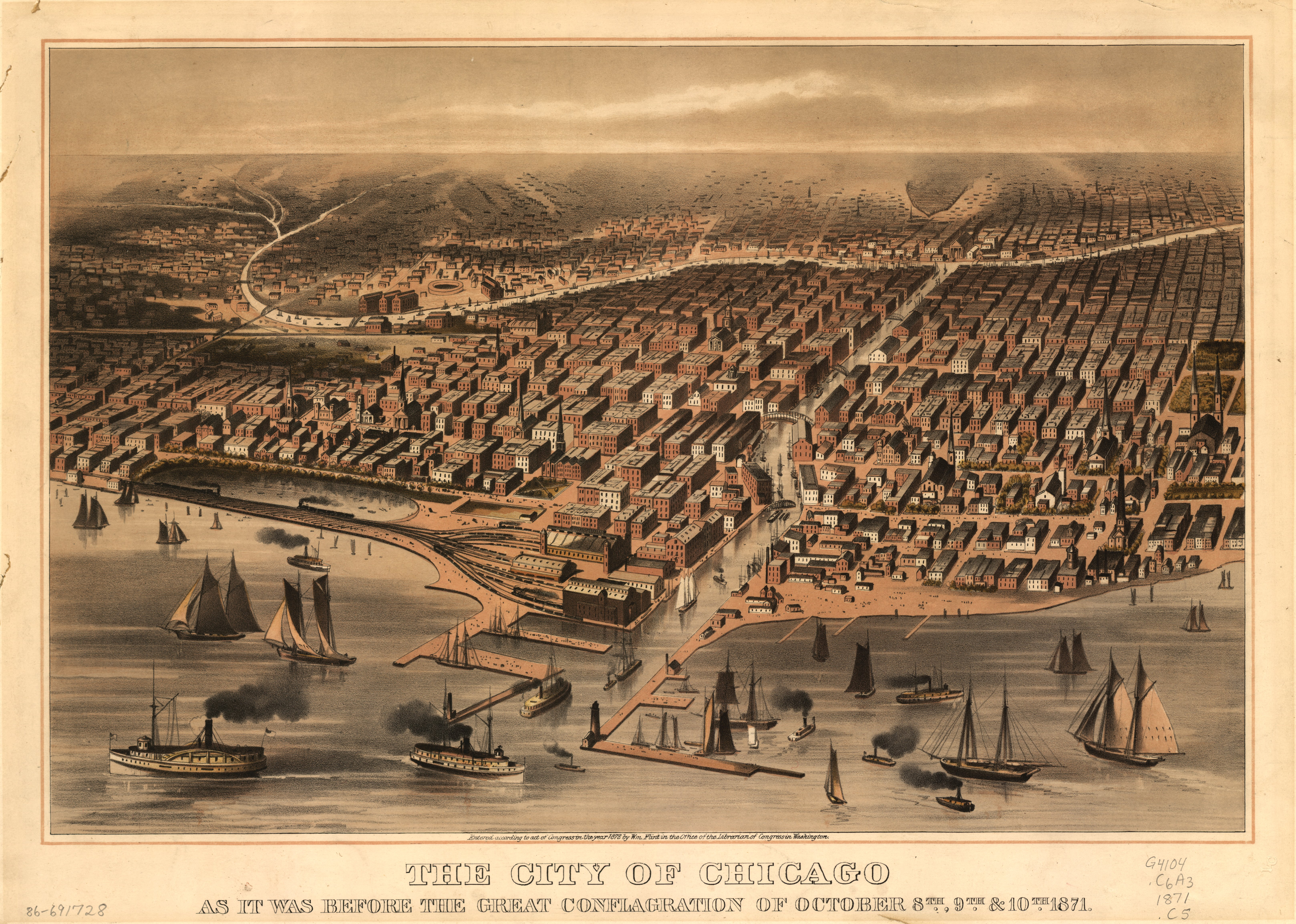 The City of Chicago as it was before the great conflagration of October 8th, 9th, & 10th, 1871.